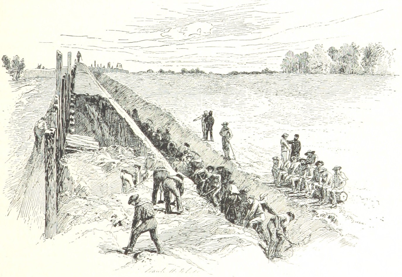 Original caption: "The 4th Massachusetts regiment fortifying Camp Butler at Newport News, from a sketch made in 1861." These fortifications were part of the Union preparations for the Battle of Big Bethel